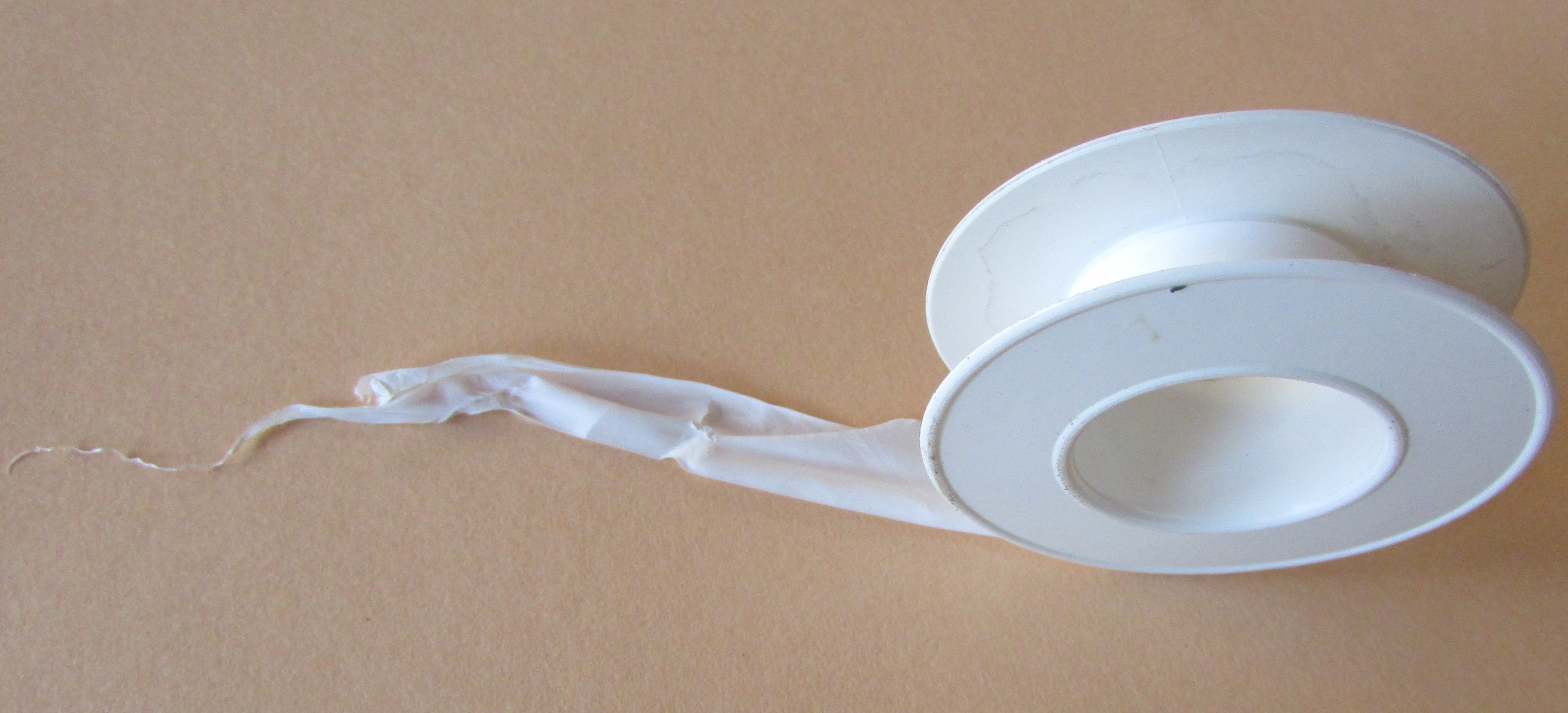 Teflon band